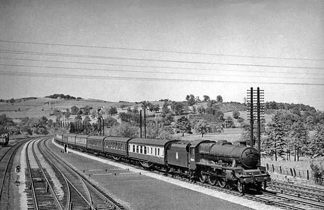 'Jubilee' Class 4-6-0 'Leander' near Duffield. The celebrated preserved 'Jubilee' in its working days: the view is northwards on the ex-Midland Derby - Manchester/Sheffield trunk line, between Milford Tunnel and Duffield station. The train was the 12.30 York - Bristol and shows the current transition in livery of BR coaching stock.